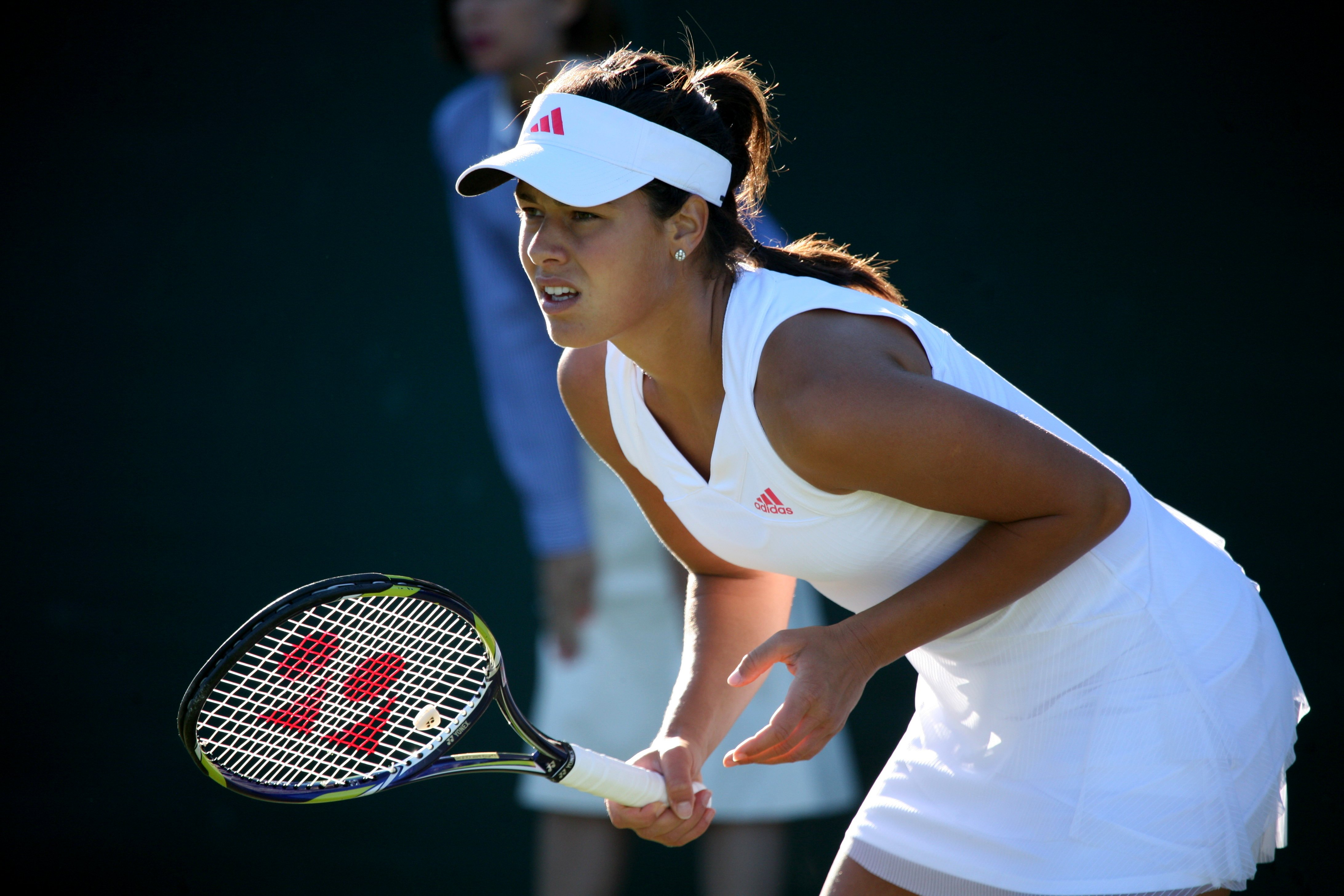 Ana Ivanović against Lucie Hradecká in the 2009 Wimbledon Championships first round